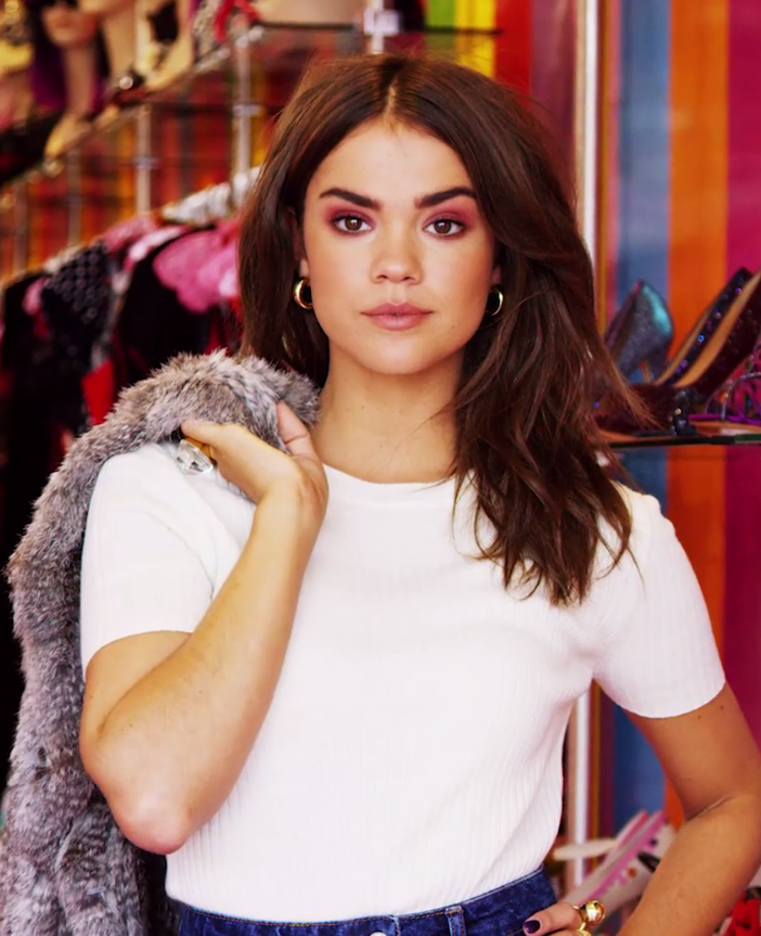 Maia Mitchell in a photoshoot for Seventeen in 2015